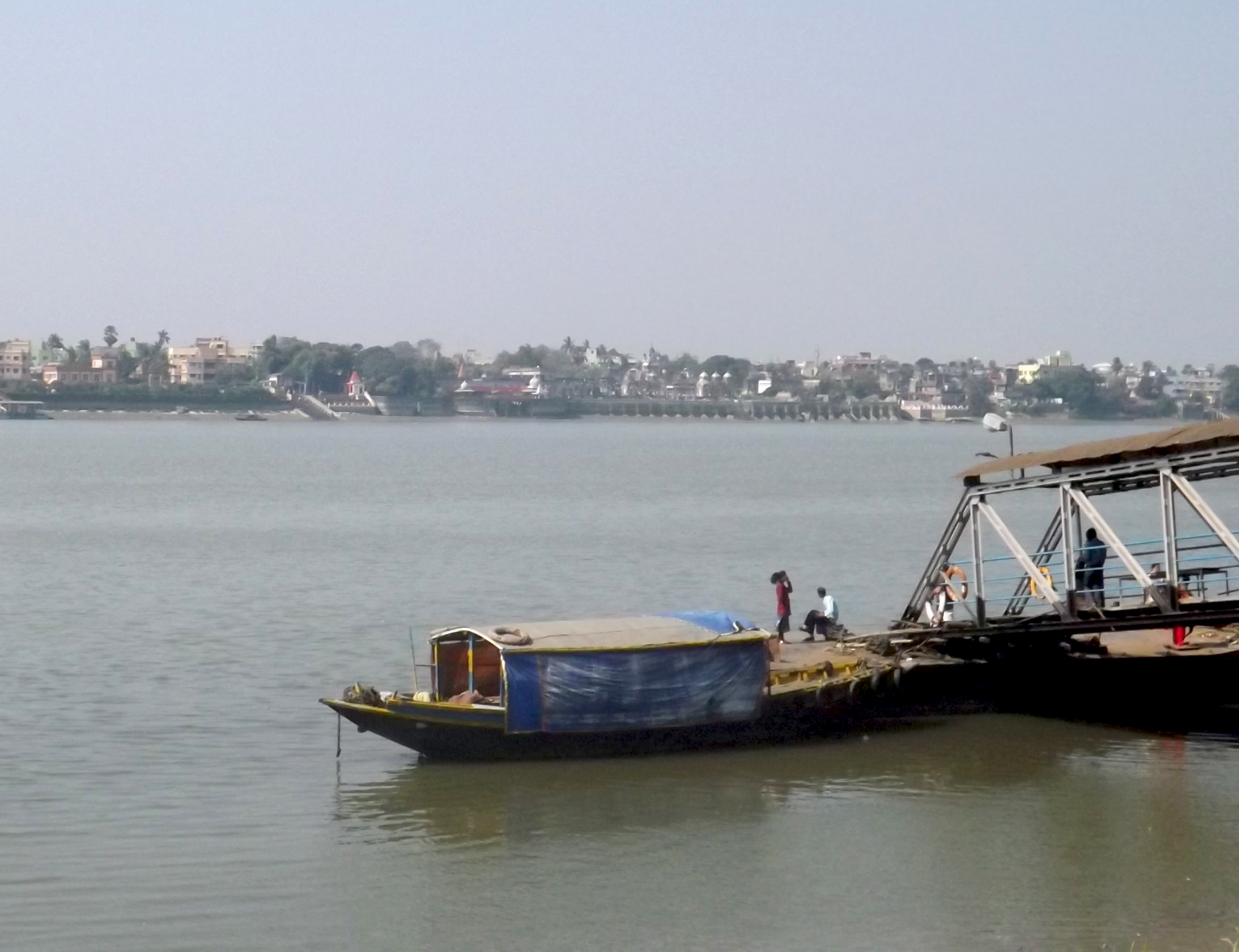 Kuthi Ghat- Earlier, barahanagar was under Dutch's rule and this is said that at that time Kuthi Ghat was used as a watch station. A building adjacent to the Ghat where the Governor of Baranagar resided. The house known as Dutch Kuthi, but persently there is hardly any trace of that house as it is demolised.